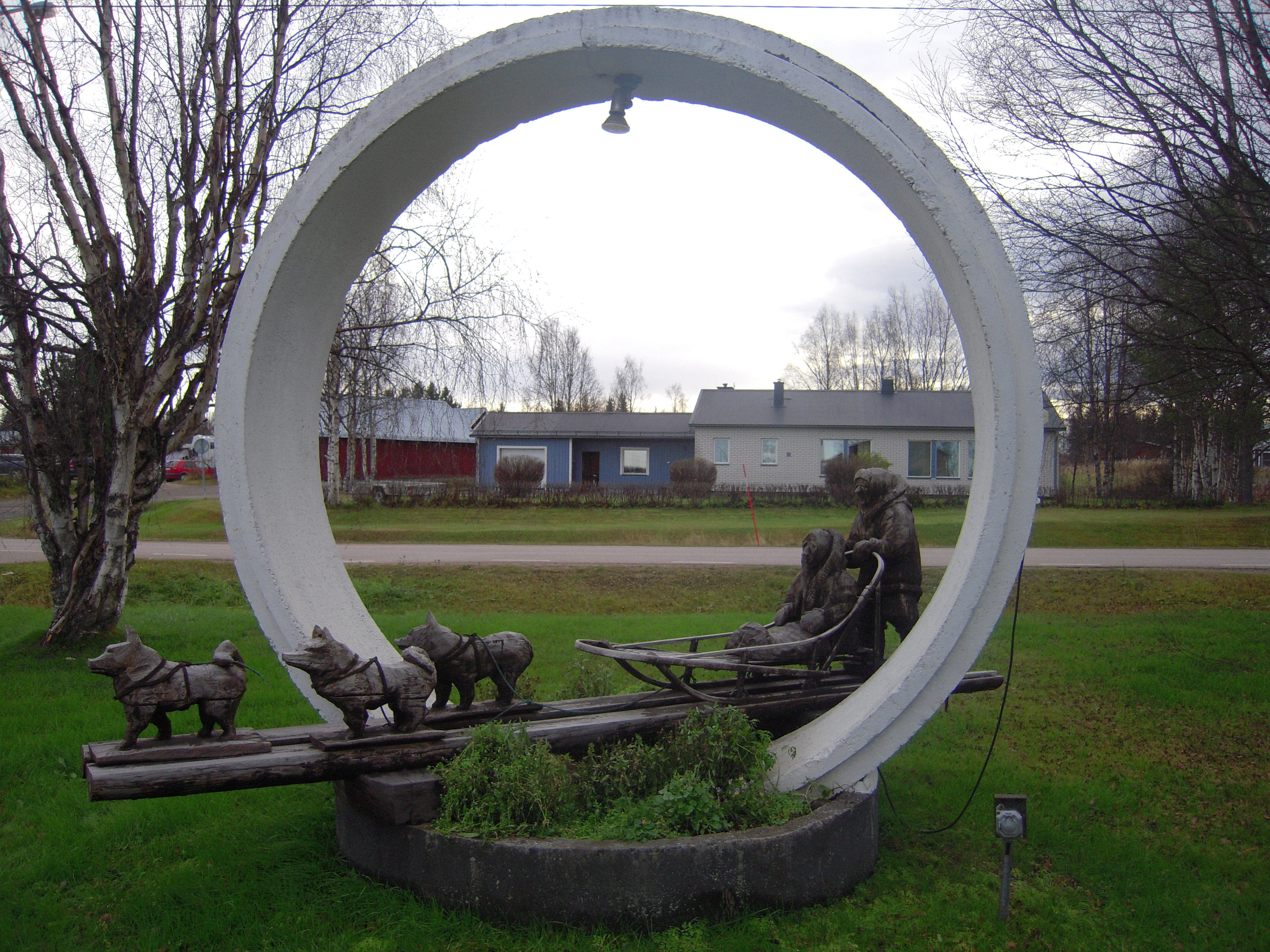 The Seppala monument in Junosuando